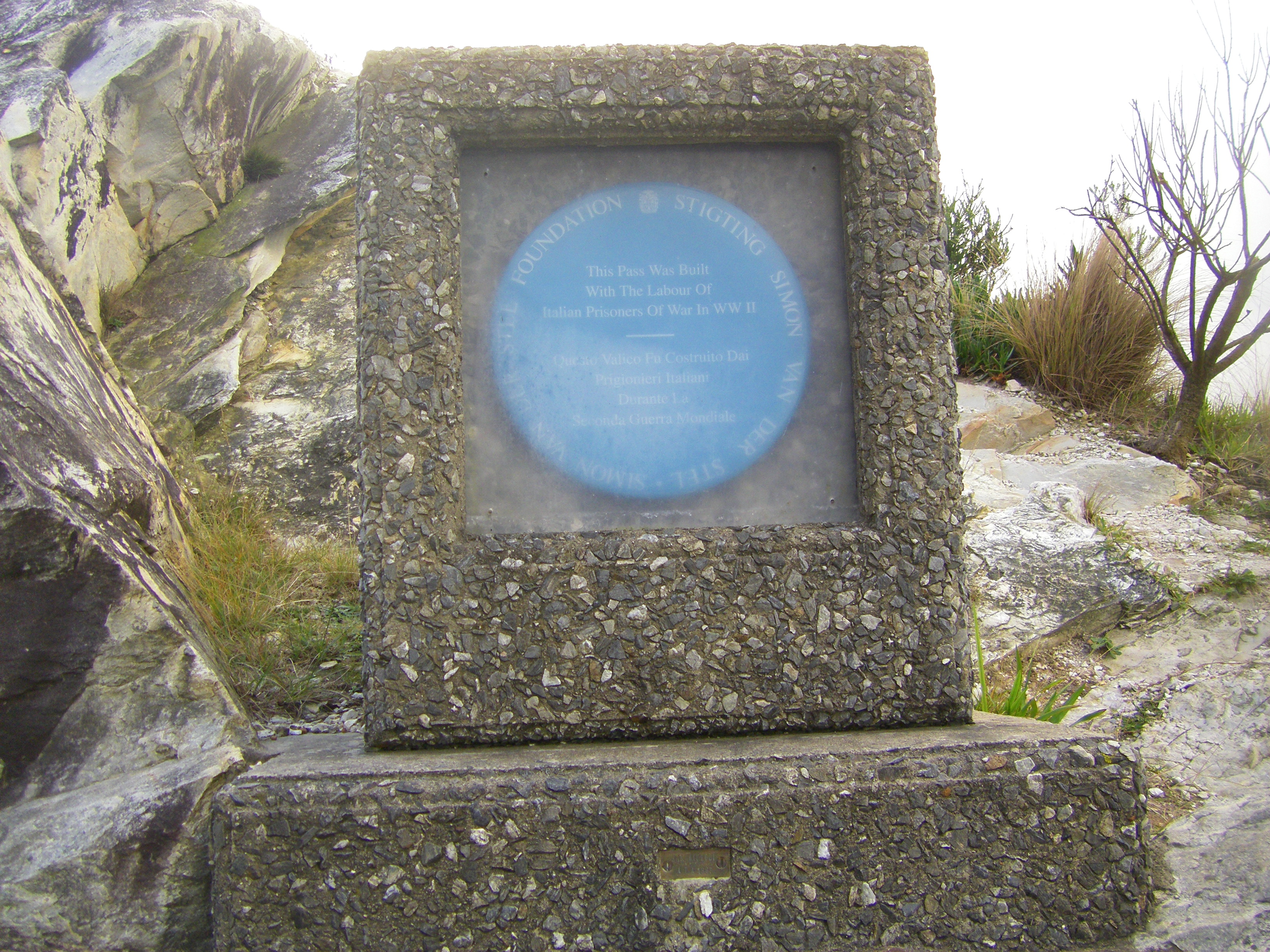 Memorial in the Outeniqua Pass, George. Simon van der Stel Foundation / Stigting This Pass Wass Built With The Labour Of Italian Prisoners Of War In WWII